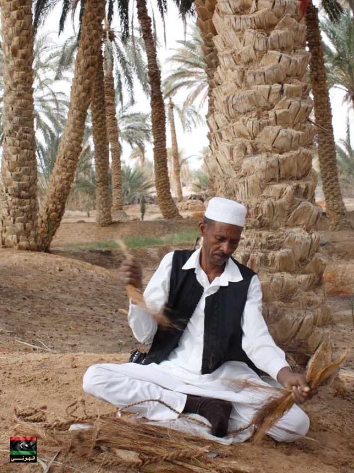 Traditional Libyan crafts: Making ropes from palm fiber